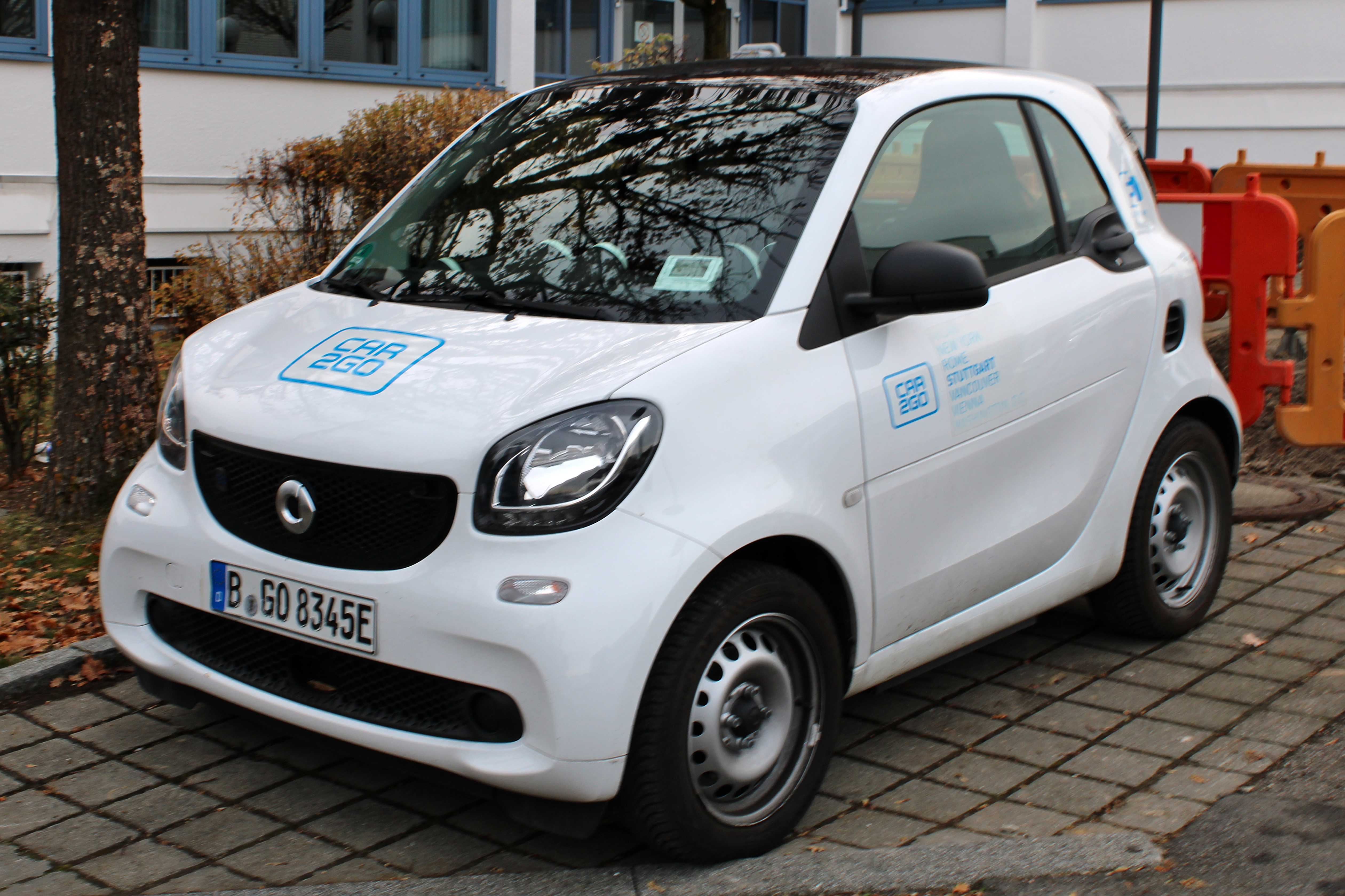 Smart Fortwo EQ (Car2Go) in Stuttgart-Vaihingen